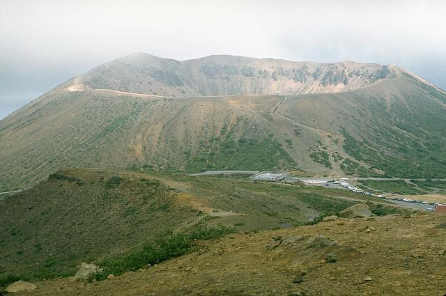 Mount Azuma in Japan Photo by Lee Siebert, 1988 (Smithsonian Institution). Smithsonian Institution is administered by the U.S. government. Photos taken by Smithsonian Institution's employees are thus without restriction. (confirmed by Mr. Edward Venzke from Smithsonian Institution)